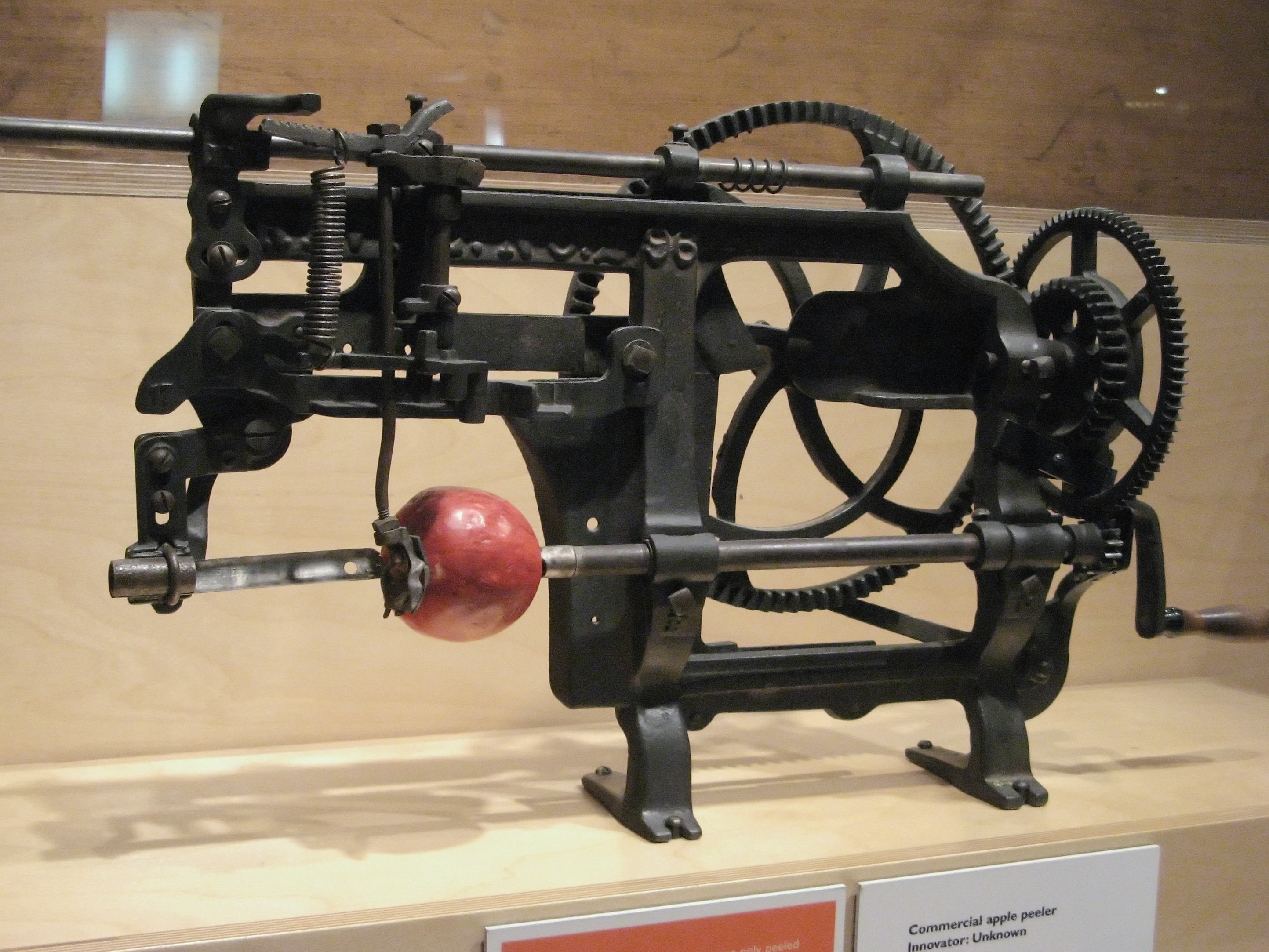 An apple peeler exhibited at the Canada Science and Technology Museum.